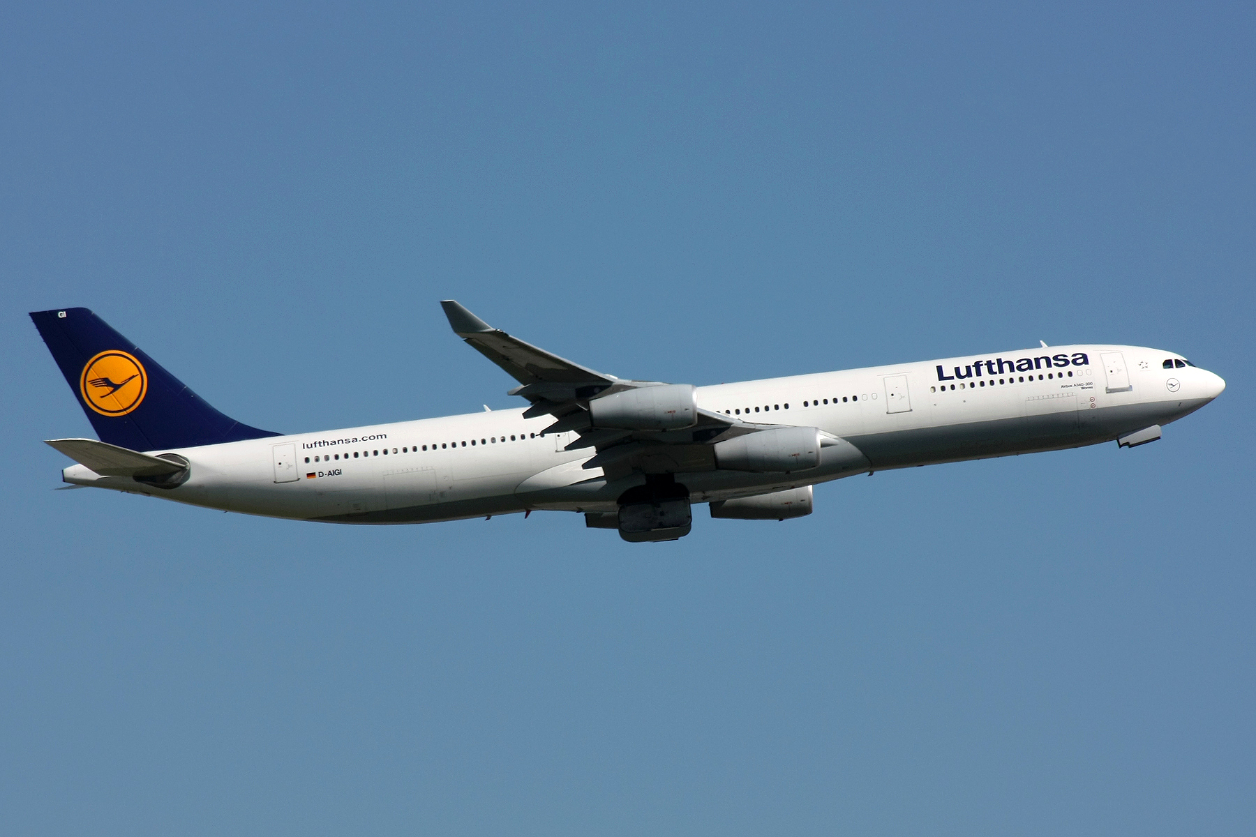 Lufthansa Airbus A340-300 at Frankfurt Airport